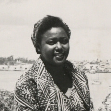 Description: Miss Lucy Lameck, M.L.C. (left), Organising Secretary of the Women's Section of the Tanganyika African National Union and Miss Victoria Kopney are seen wearing the proposed national dress for women designed by Miss Lameck. Location: Tanganyika Date: 1960s Our Catalogue Reference: Part of CO 1069/164 This image is part of the Colonial Office photographic collection held at The National Archives, uploaded as part of the Africa Through a Lens project. Feel free to share it within the spirit of the Commons. Our records about many of these images are limited. If you have more information about the people, places or events shown in an image, please use the comments section below. We have attempted to provide place information for the images automatically but our software may not have found the correct location. Alternatively you could use the Suggestify tool to suggest the location of a picture. For high quality reproductions of any item from our collection please contact our image library